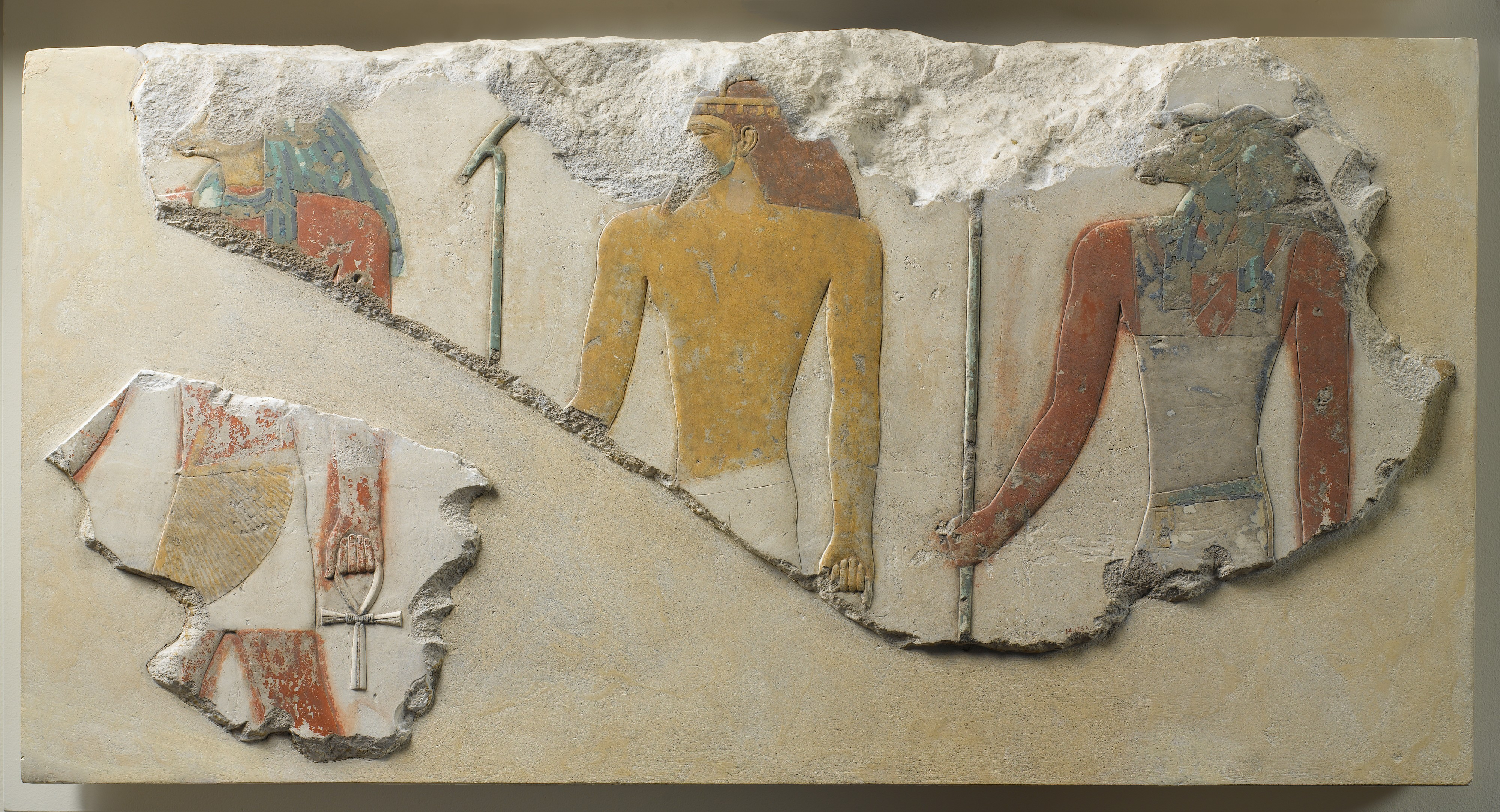 Relief, three gods